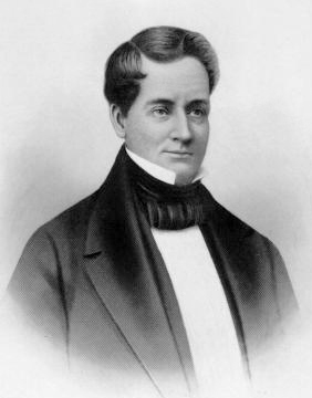 Thomas Kirker